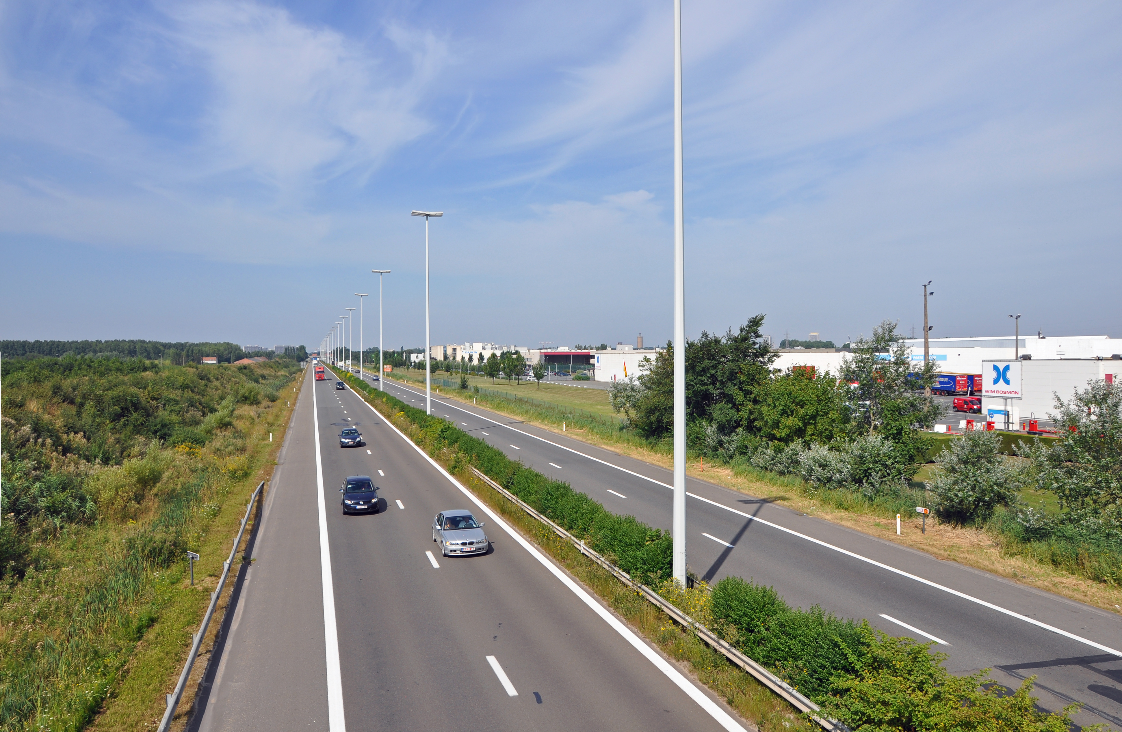 A10 motorway near Ostend (Belgium)